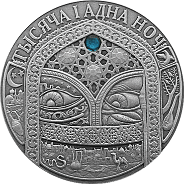 Belarus and the global community. Commemorative Coin "A Thousand i Adna night"("Thousand and One Nights")